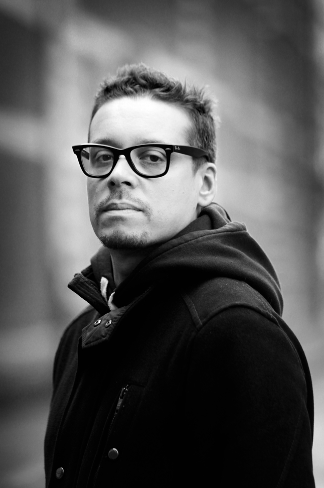 This is a portrait photograph of Flemish comic book artist Maarten Vande Wiele, taken by photographer Bart Van Der Moeren, to expand the Wikipedia page of Vande Wiele.